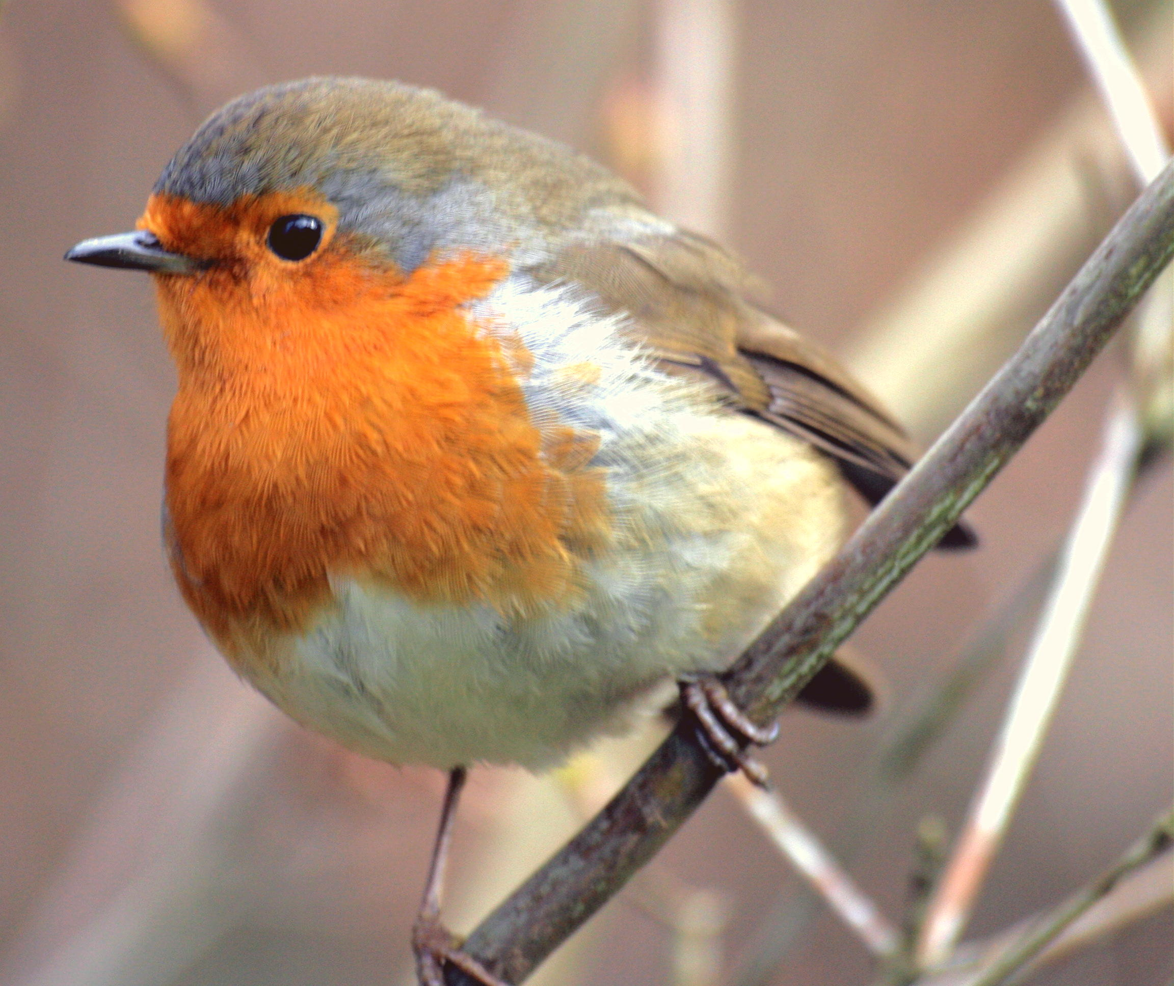 Botanical Gardens - Robin - Brest, Brittany, France - Monday 24th December 2007